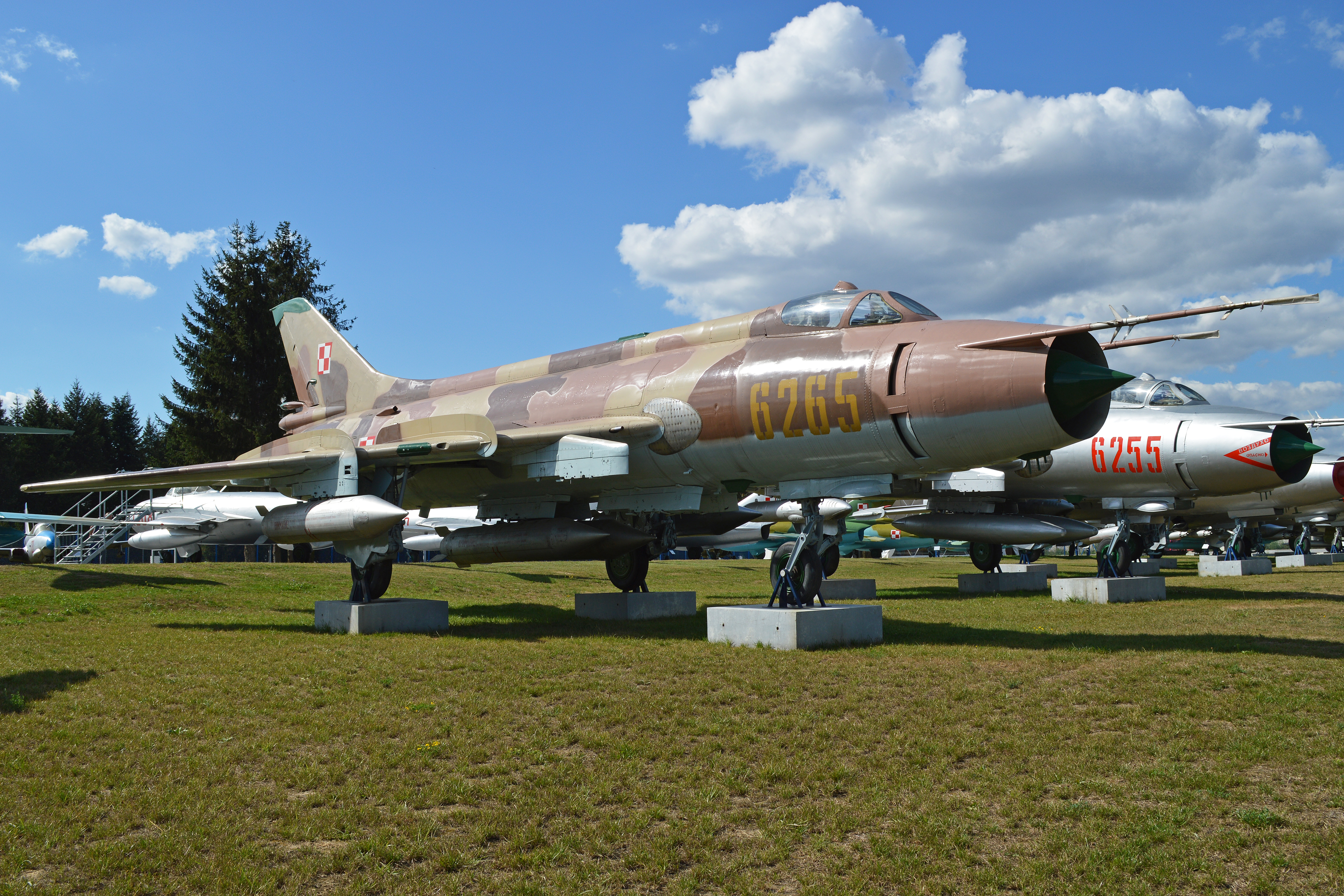 The second Su-20R in the row at Deblin is in an attractive desert scheme. c/n 74415. On display at the Muzeum Sit Powietrznych. Deblin, Poland. 25-8-2013